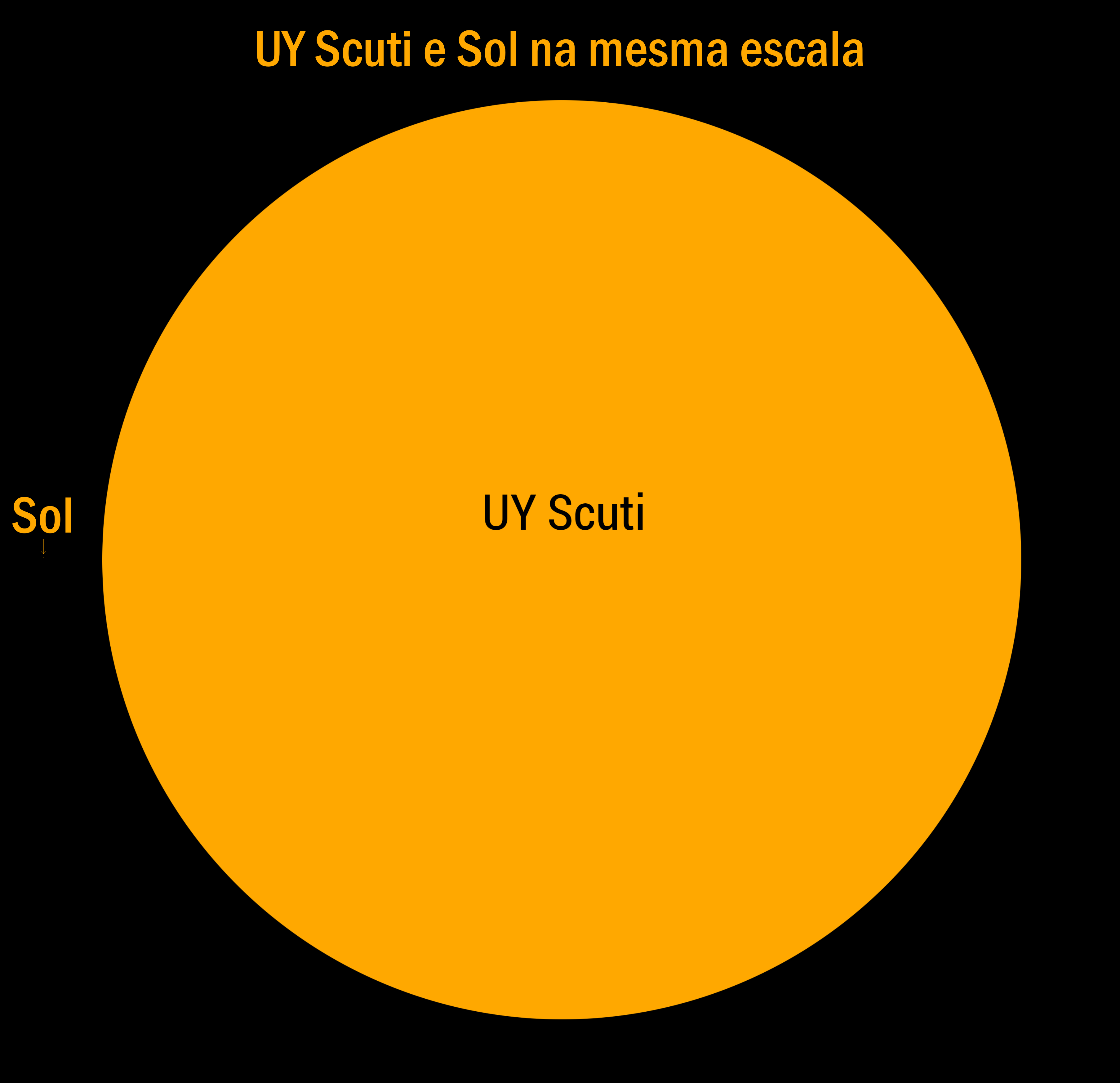 Approximate size of the star UY Scuti compared to the sun.